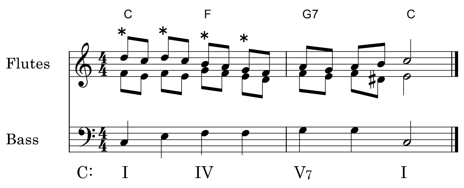 An example how to resolve rhythmic appoggiaturas in 2 voice sectional harmony.